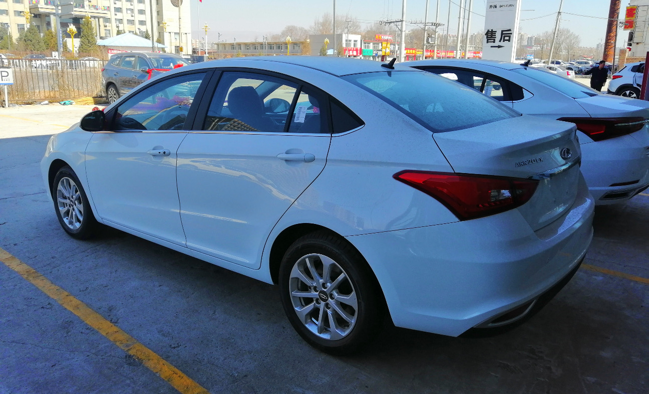 Chery Arrizo EX photographed in Hohhot, Inner Mongolia autonomous region, China.